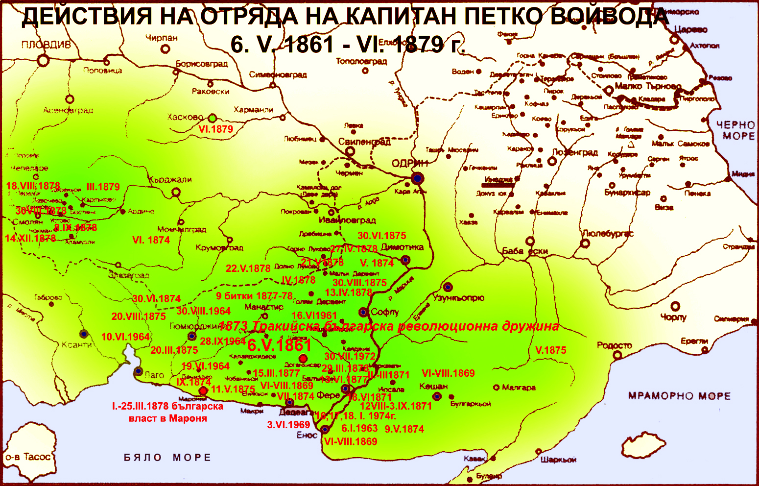 Petko voivoda areal of activity, map Milomir Bogdanov